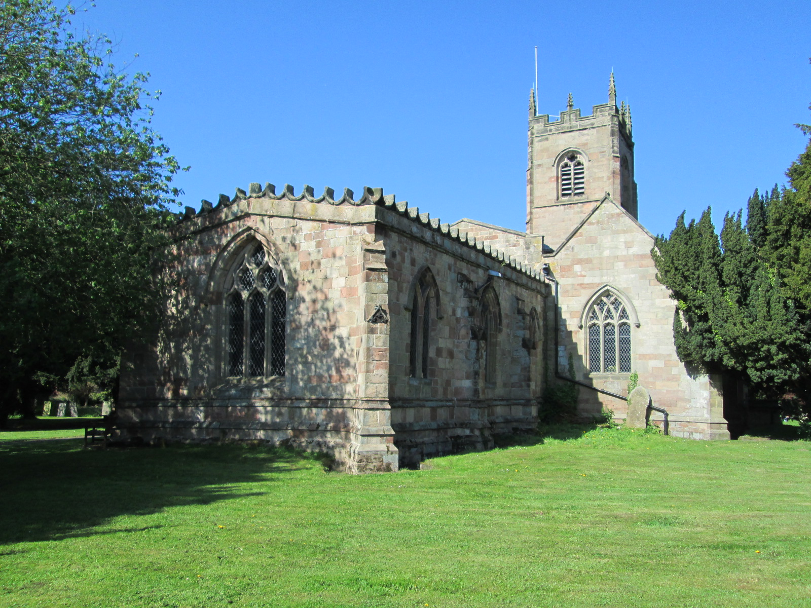 St John the Baptist's Church in Mayfield, Staffordshire, seen from the east.